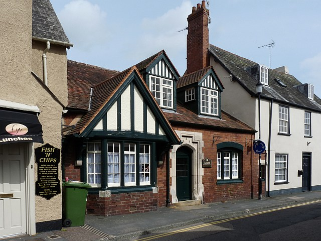 Coroner's Office, Fore Street, Topsham This building, dated 1892, is the office for Her Majesty's Coroner for the Exeter and Greater Devon District which includes North, West and East Devon.